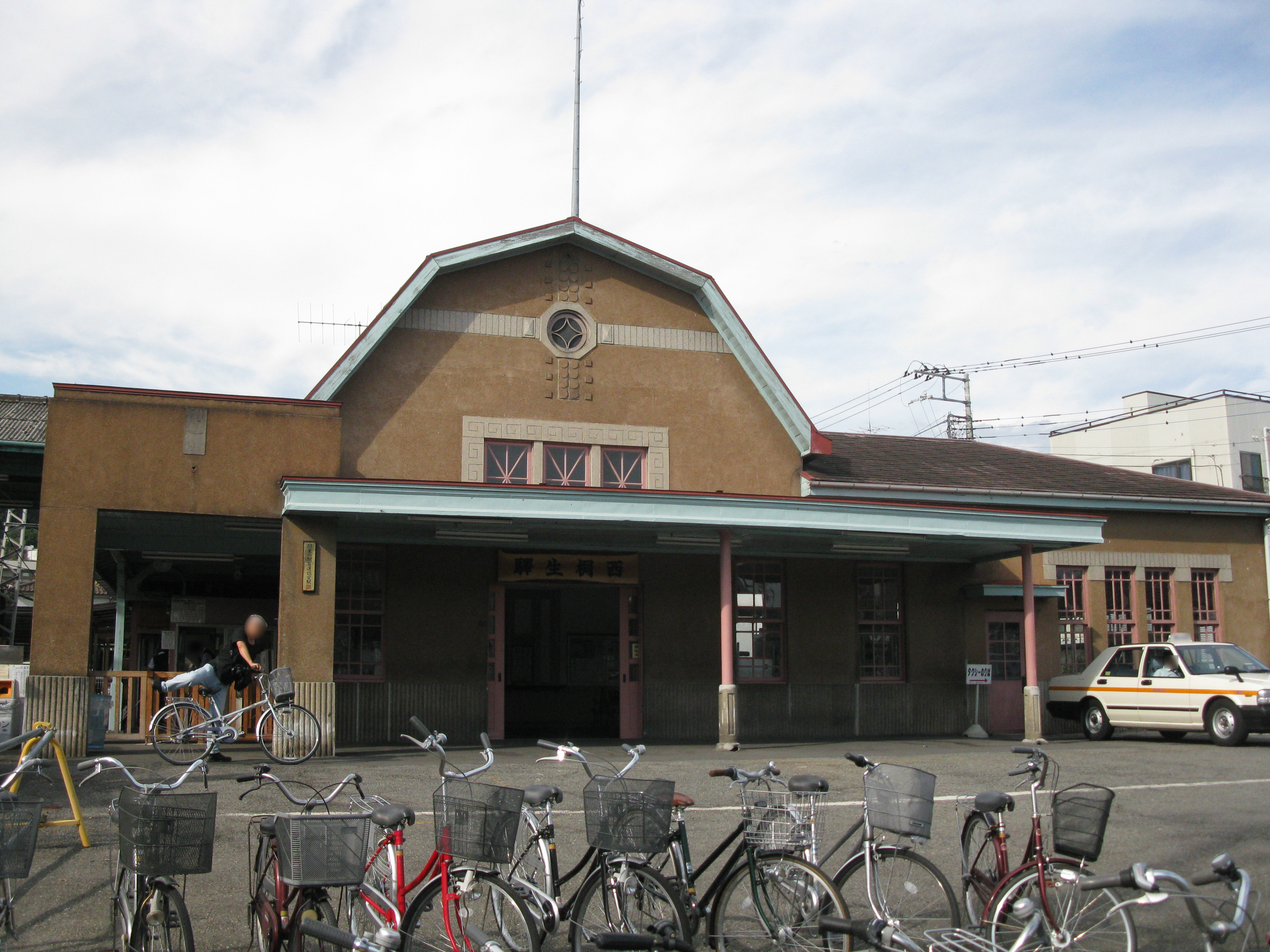 Nishi-Kiryū Station building (Jōmō Electric Railway Company Jōmō Line)